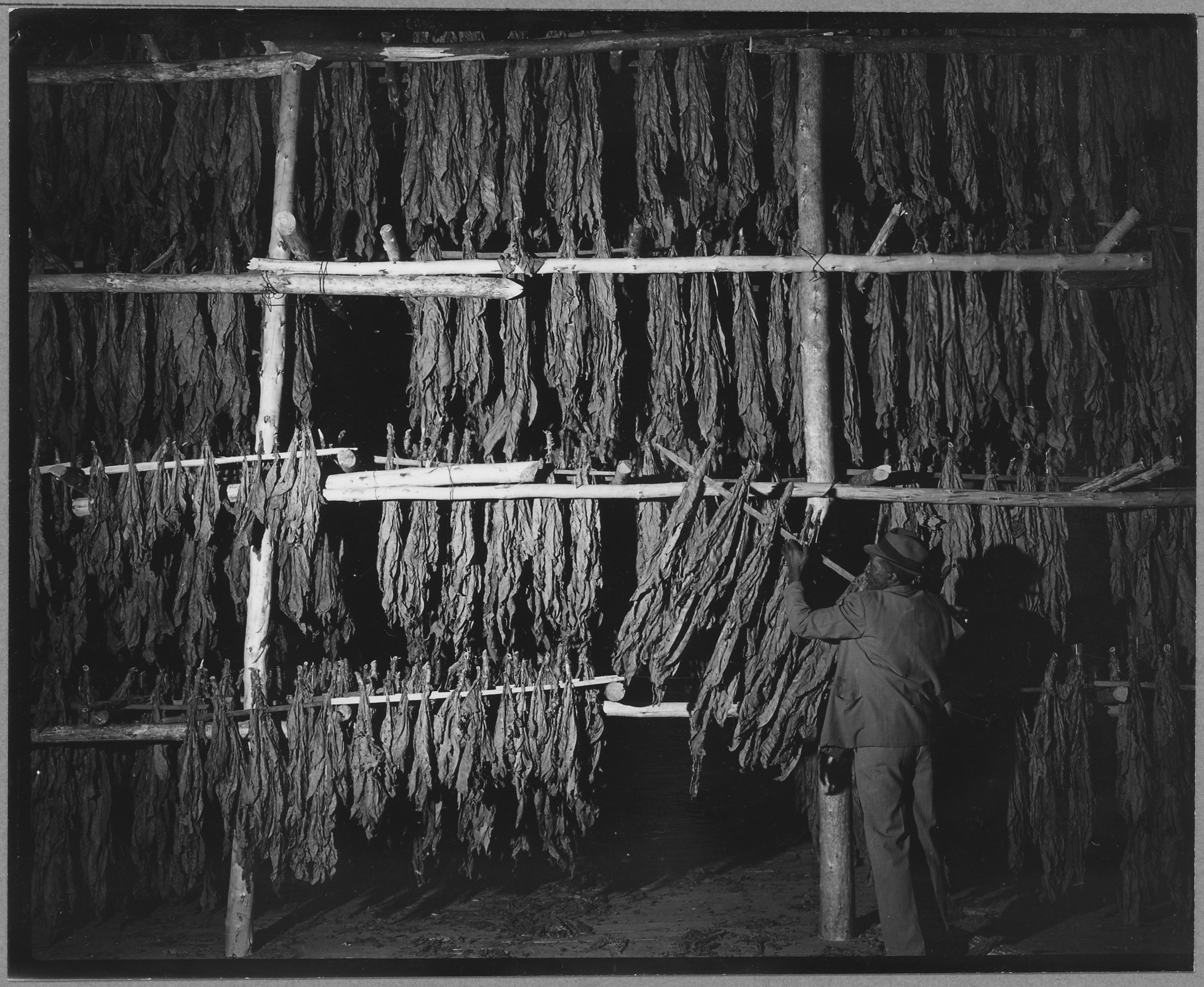 Scope and content: Full caption reads as follows: Charles County, Maryland. Tobacco being dried in one of the Hughesville warehouses.